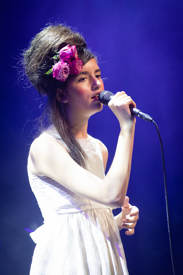 Angelina Jordan in Kongsberg Musikkteater. The concert was part of Kongsberg Jazzfestival and took place on 07. July 2018 in Kongsberg. Lineup:Angelina Jordan (vocal)Unidentified (piano)Jens Fossum (double bass)Magnus Sefaniassen Eide (drums)Unidentified (keyboard)